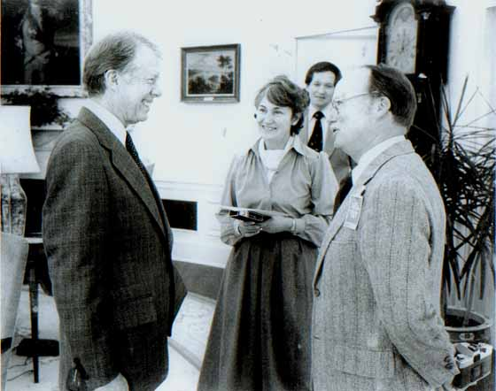 Artist Robert Templeton and his wife Leonore meeting President Jimmy Carter